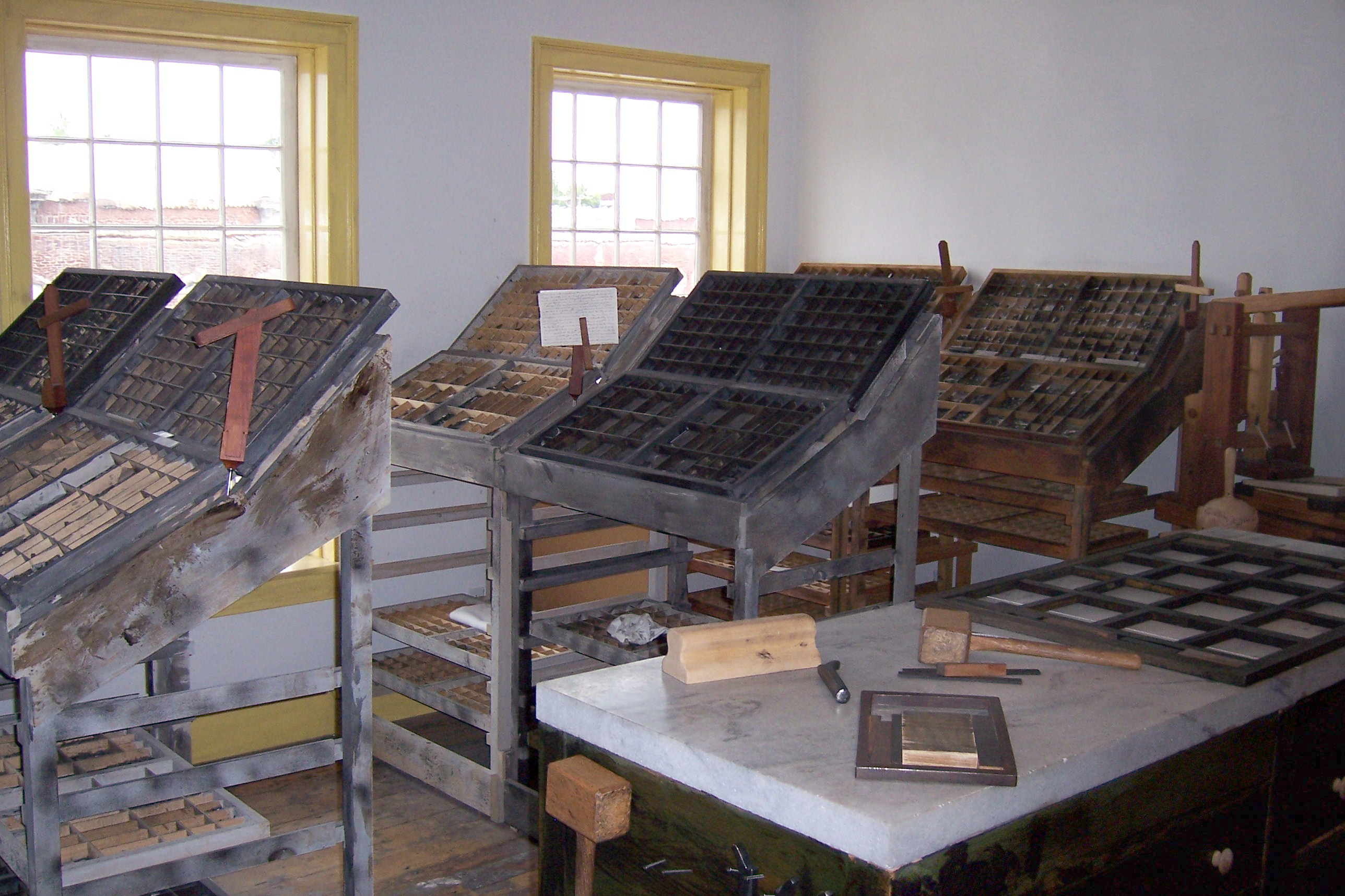 The movable type cases used in letterpress printing as seen on the third floor of the E.B. Grandin Building in Palmyra, New York. The Book of Mormon was published for the very first time in this building during 1830, and the building is currently operated as a historic site by The Church of Jesus Christ of Latter-day Saints.